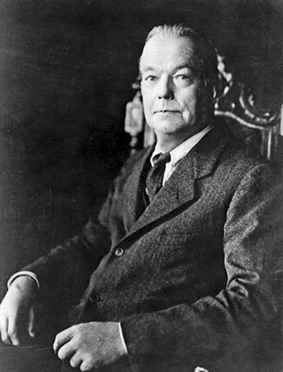 Photograph of the parapsychologist Walter Franklin Prince.